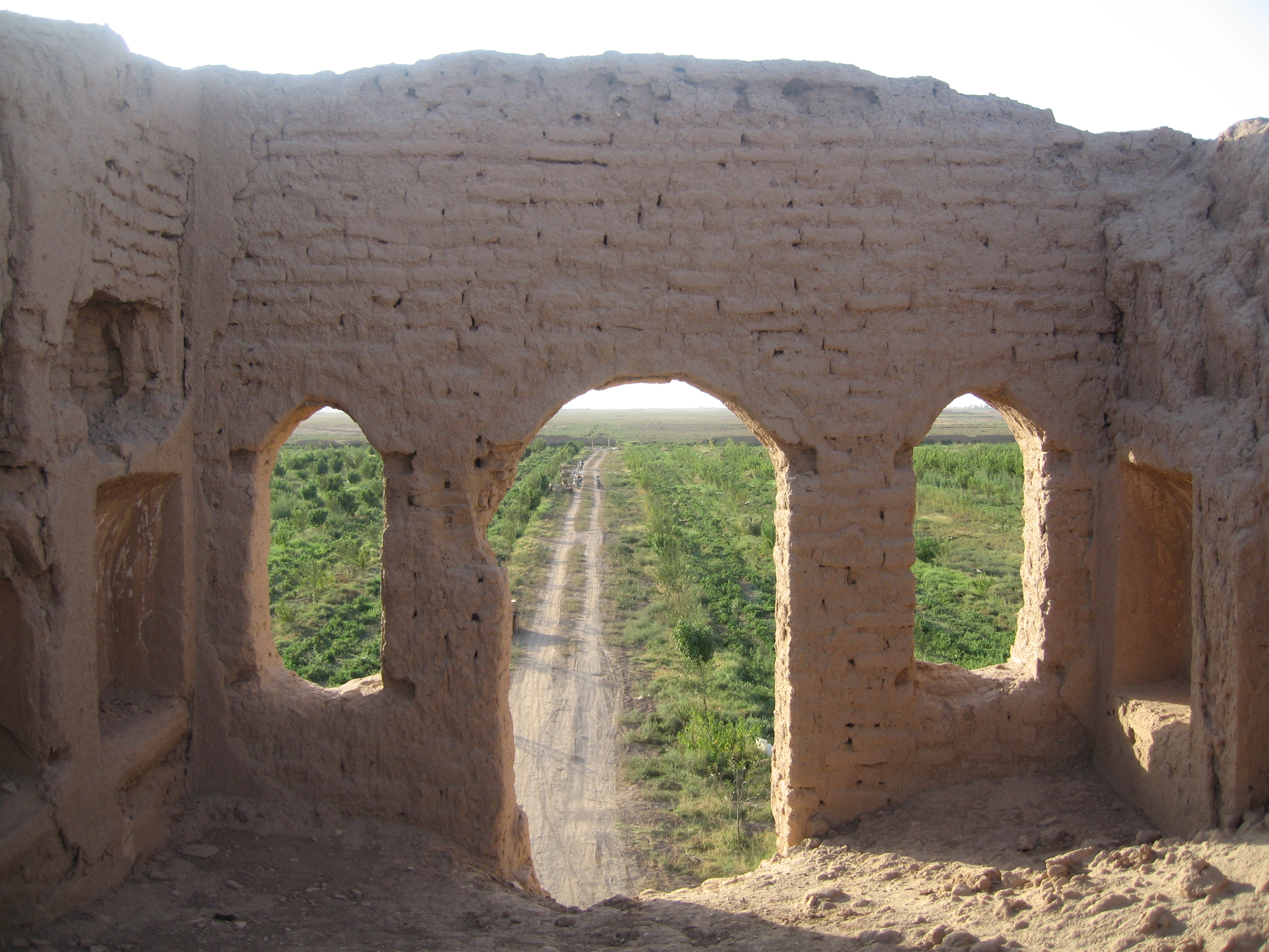 ruins near shal (kheyrabaad)